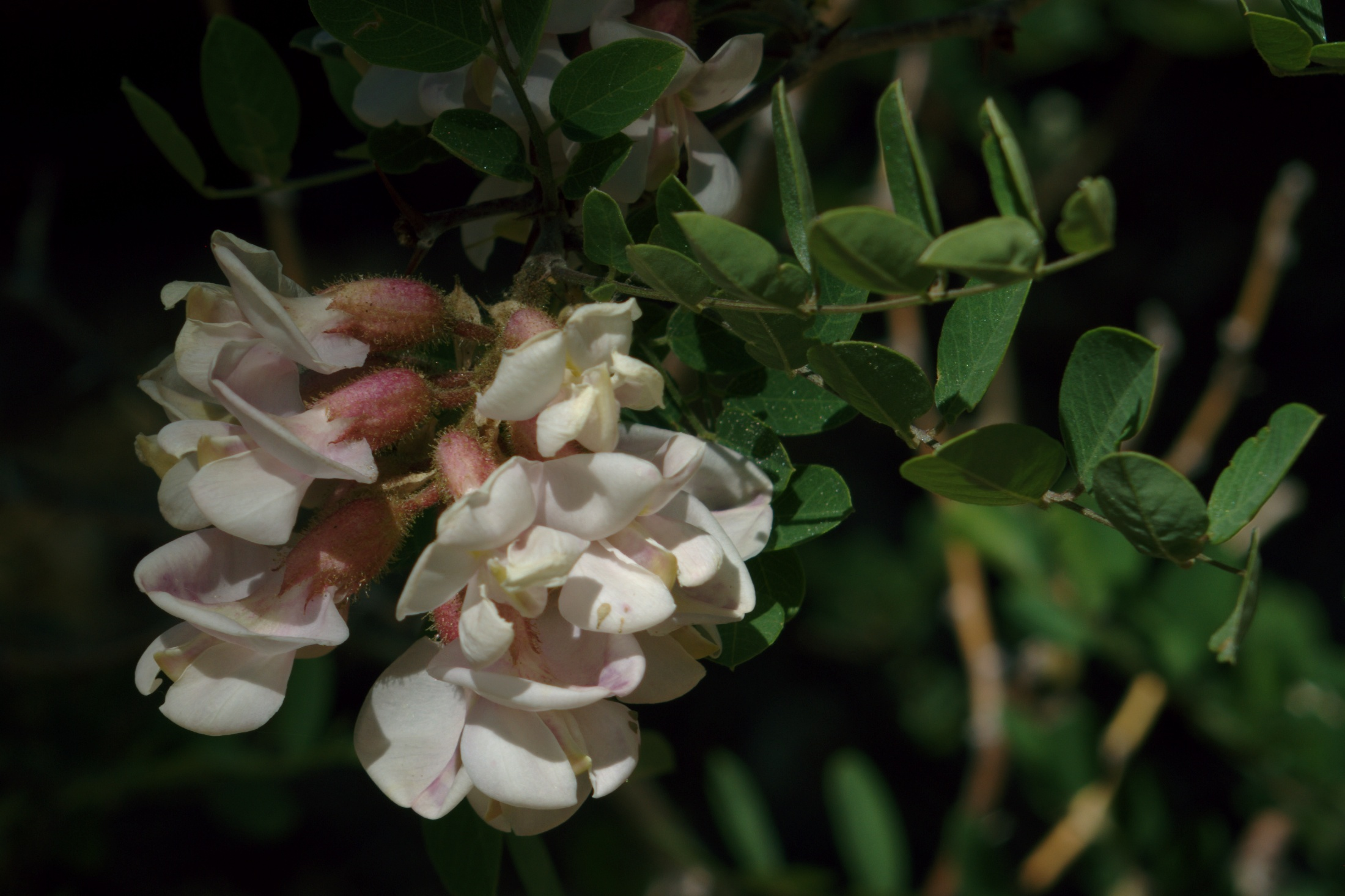 Detail of Robinia neomexicana (New Mexico locust, pink locust, rose locust, southwestern locust), Upper Crossing Trail, Bandelier National Monument.